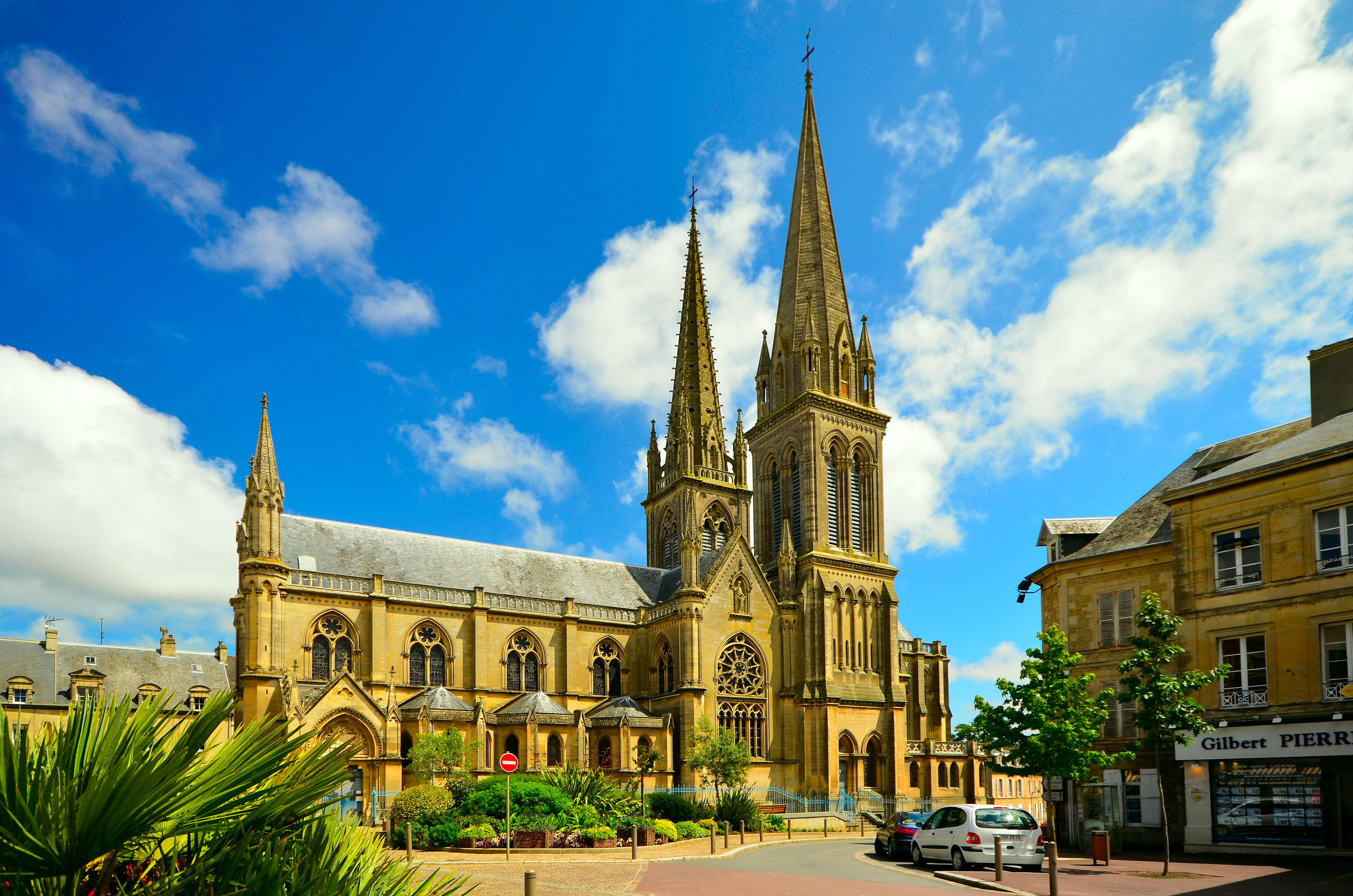 La basilique Notre Dame de la Délivrande